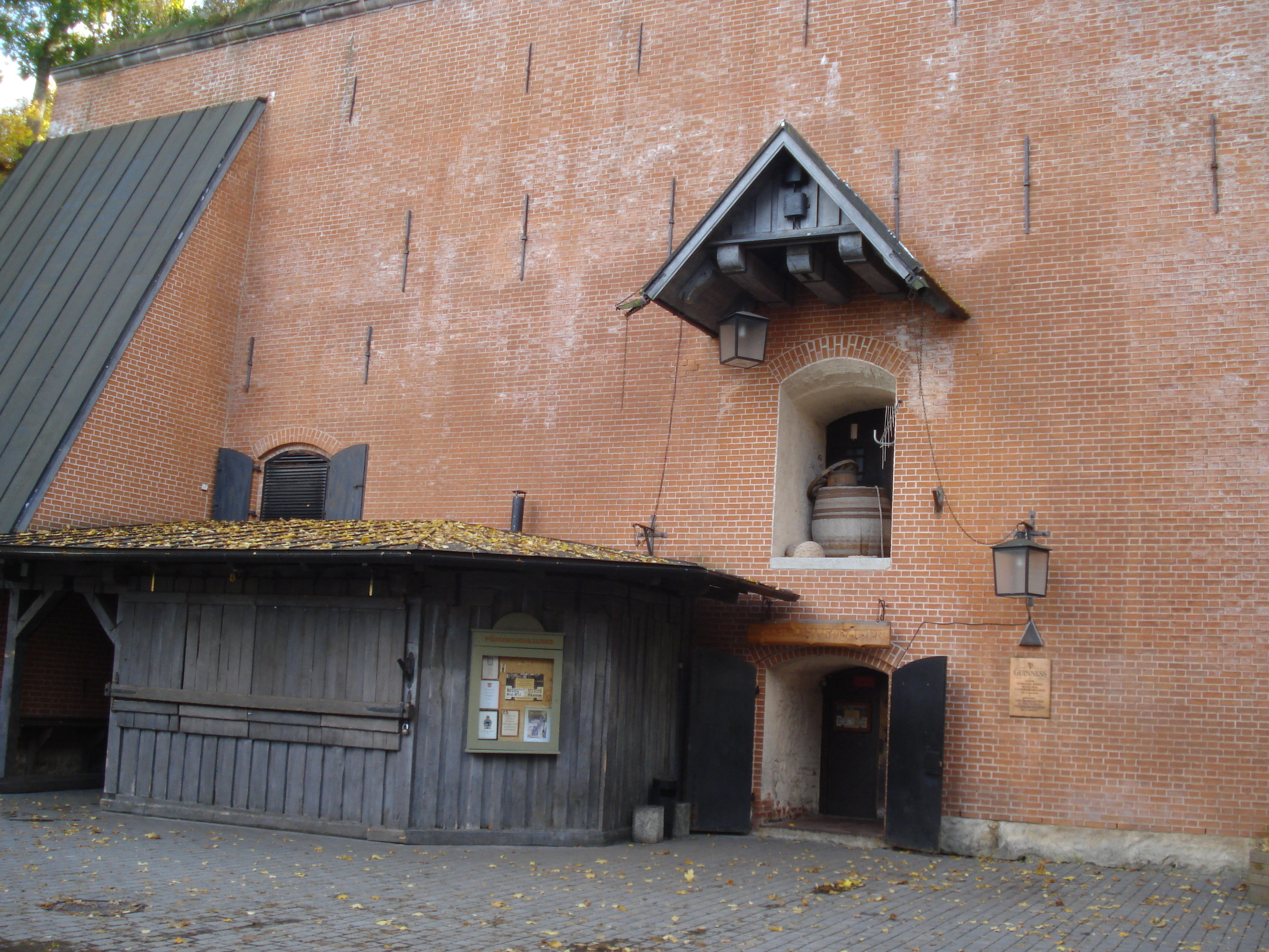 Entrance to the Gunpowder Cellar in Tartu (Estonia). Built in 1767, used as a gunpowder cellar up to 1802 or 1809, now served as a beer restaurant